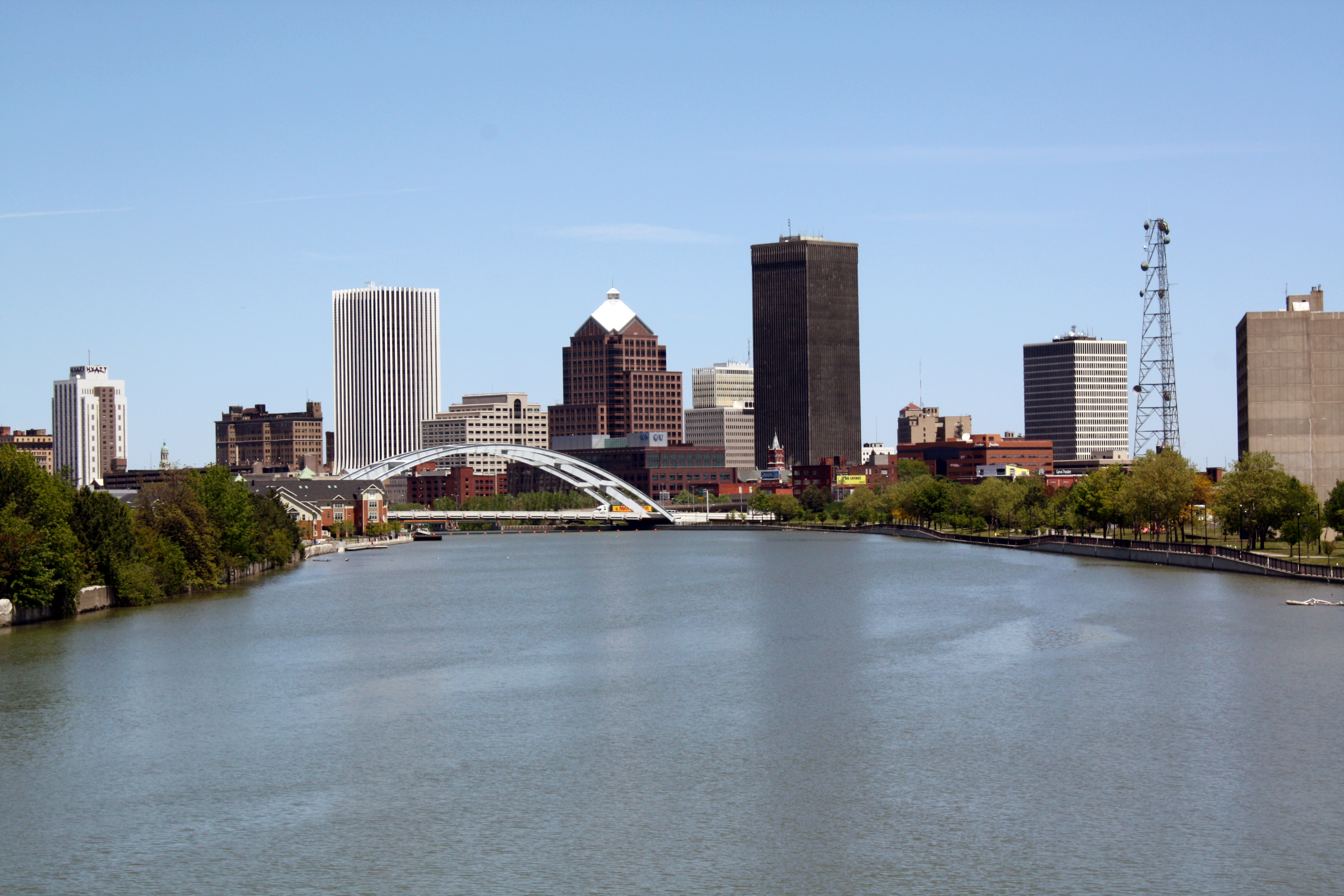 Downtown Rochester New York from Ford St. Bridge